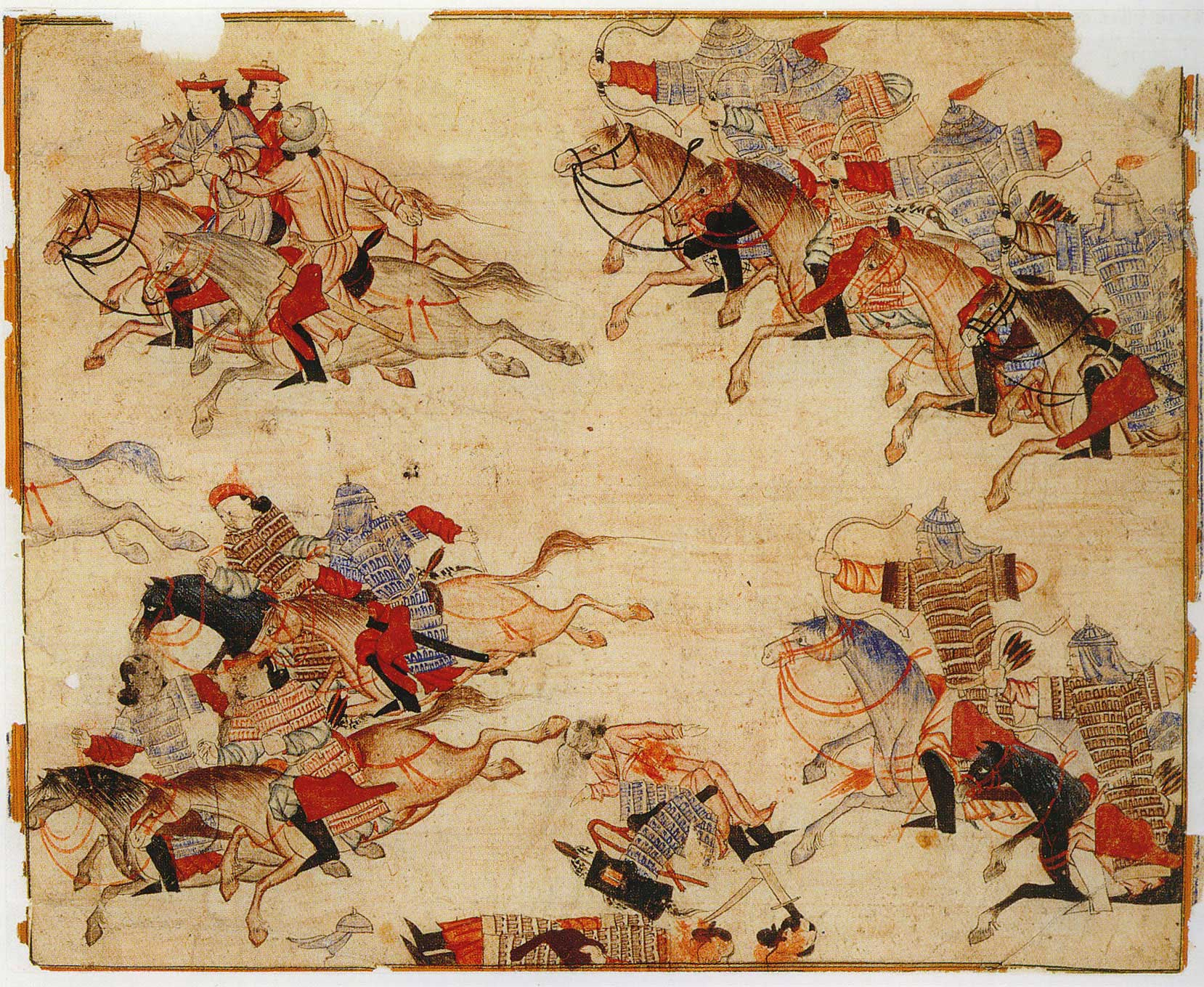 Mounted warriors pursue enemies. Illustration of Rashid-ad-Din's Gami' at-tawarih. Tabriz (?), 1st quarter of 14th century. Water colours on paper. Original size: 21.2 cm x 26.2 cm. Staatsbibliothek Berlin, Orientabteilung, Diez A fol. 70, p. 58. Probably a conflict between Mongols. See also Image:DiezAlbumsArmedRiders_II.jpg.